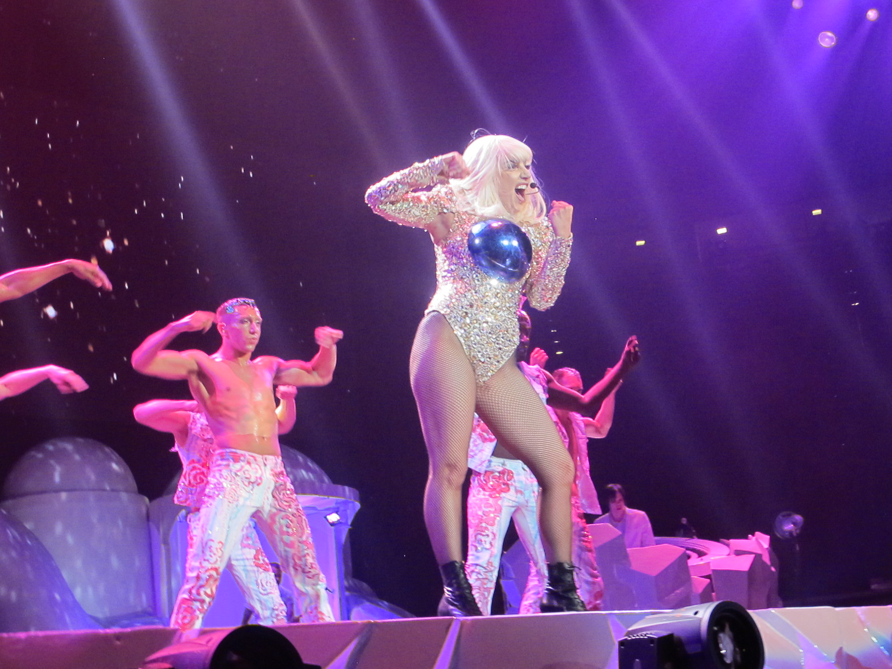 IMG_8188 Lady Gaga performing at ArtRave: The Artpop Ball of San Diego